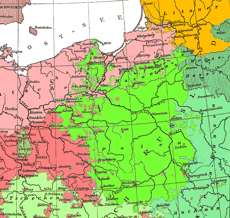 Detail of a language map of Germany, which is part of a German atlas, printed in 1880. The colours have been cleaned, but their localization has not at all been changed.